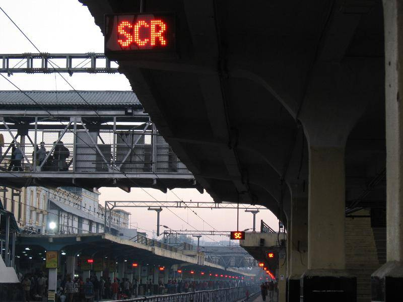 The Platform at Secunderabad Railway Statiion